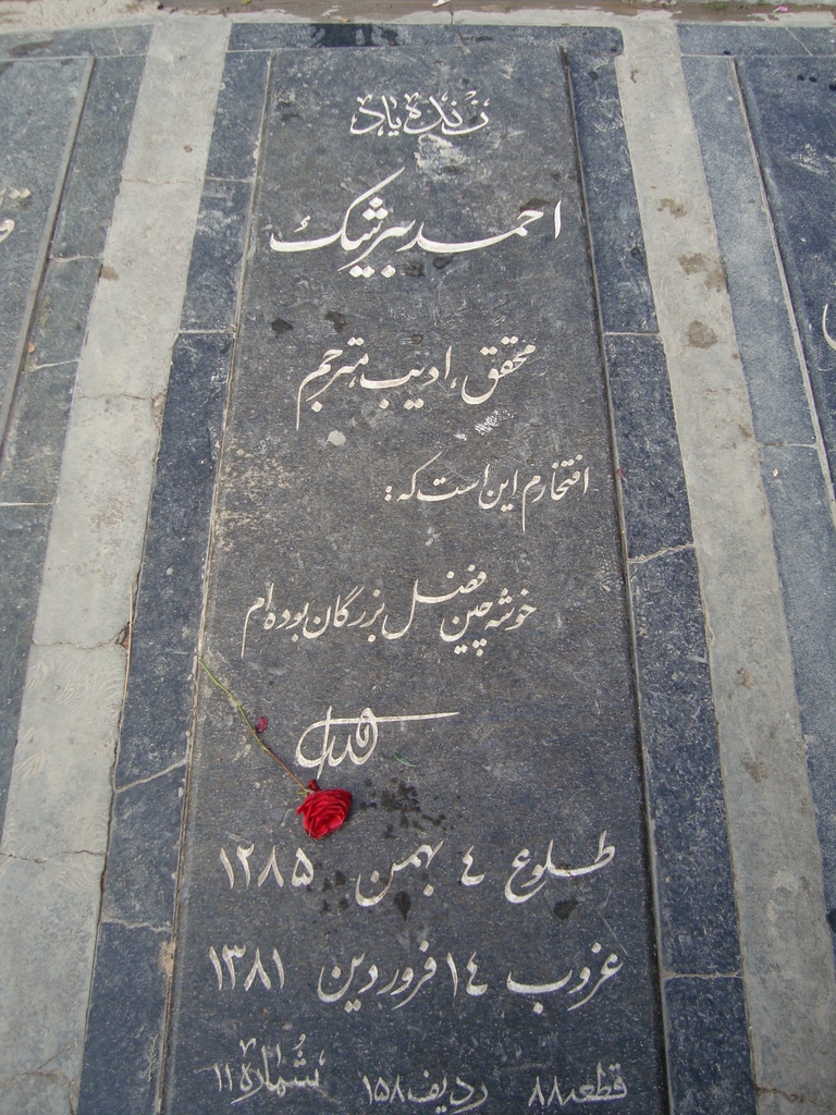 Ahmad Birashk's tomb in Beheshte-zahra, Tehran, Iran